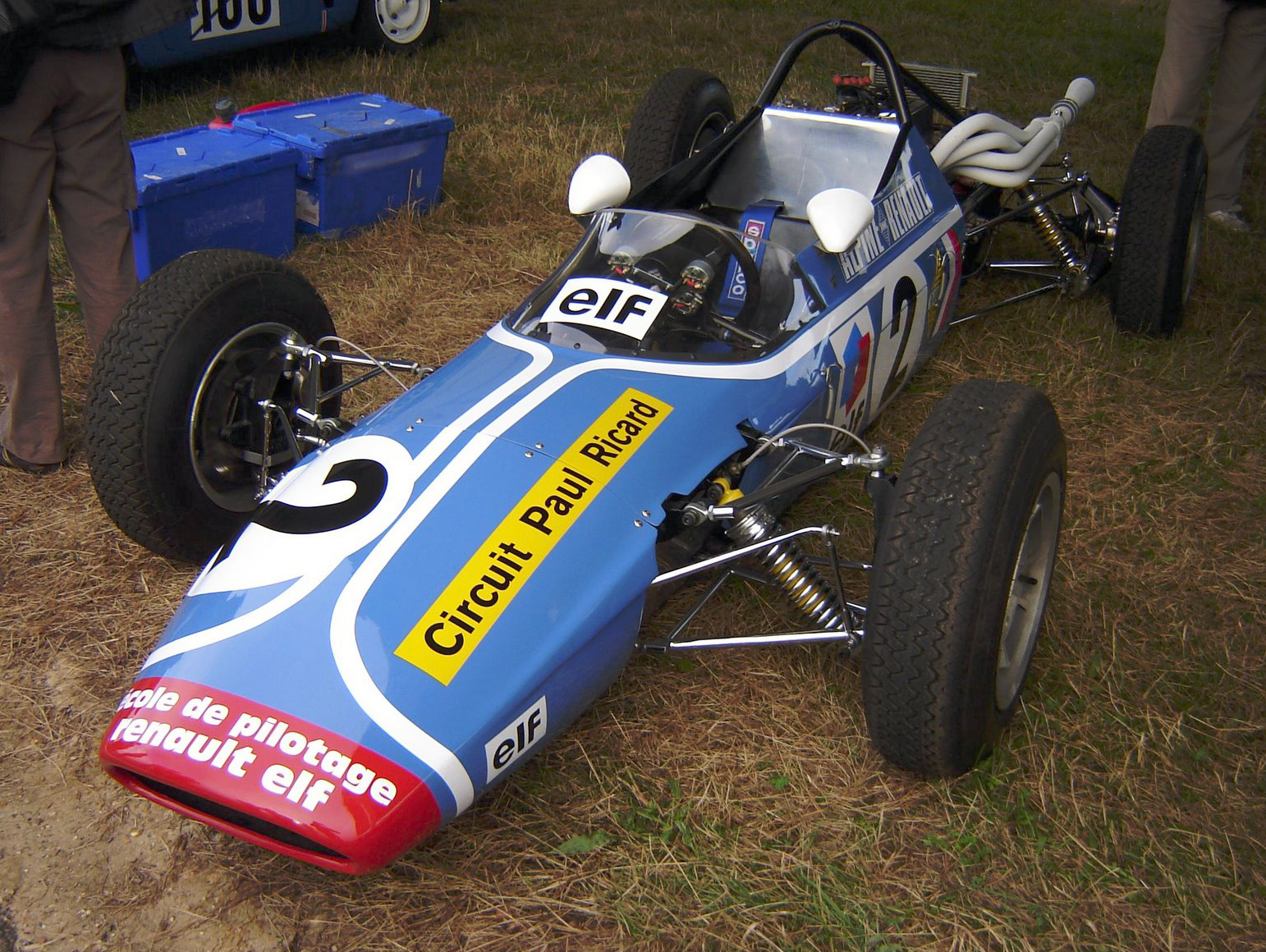 A Renault Alpine A362 from the Paul Ricard "Elf Renault racing driver's school", at the Autodrome de Linas-Montlhéry, 2009. These cars were especially built for this racing school, headed by Philippe Vidal. Inaugurated on 30 June 1971, the school featured ten cars powered by R12 Gordini engines which provided more longevity than the smaller race-tuned engines used by the F3 competition cars on which the A362 was based. The courses were spread across six levels, in accordance with the familiarization with the track and the car, until use at full speed (6,500rpm = 215 km/h) was allowed after passing intermediate stages limited to 3,500, 4,500, and 5,500 rpm. The final race was to consist of five drivers, the winner of which became the Pilote Elf 72 and was allowed entry in the Formule Renault competition as a full professional driver.